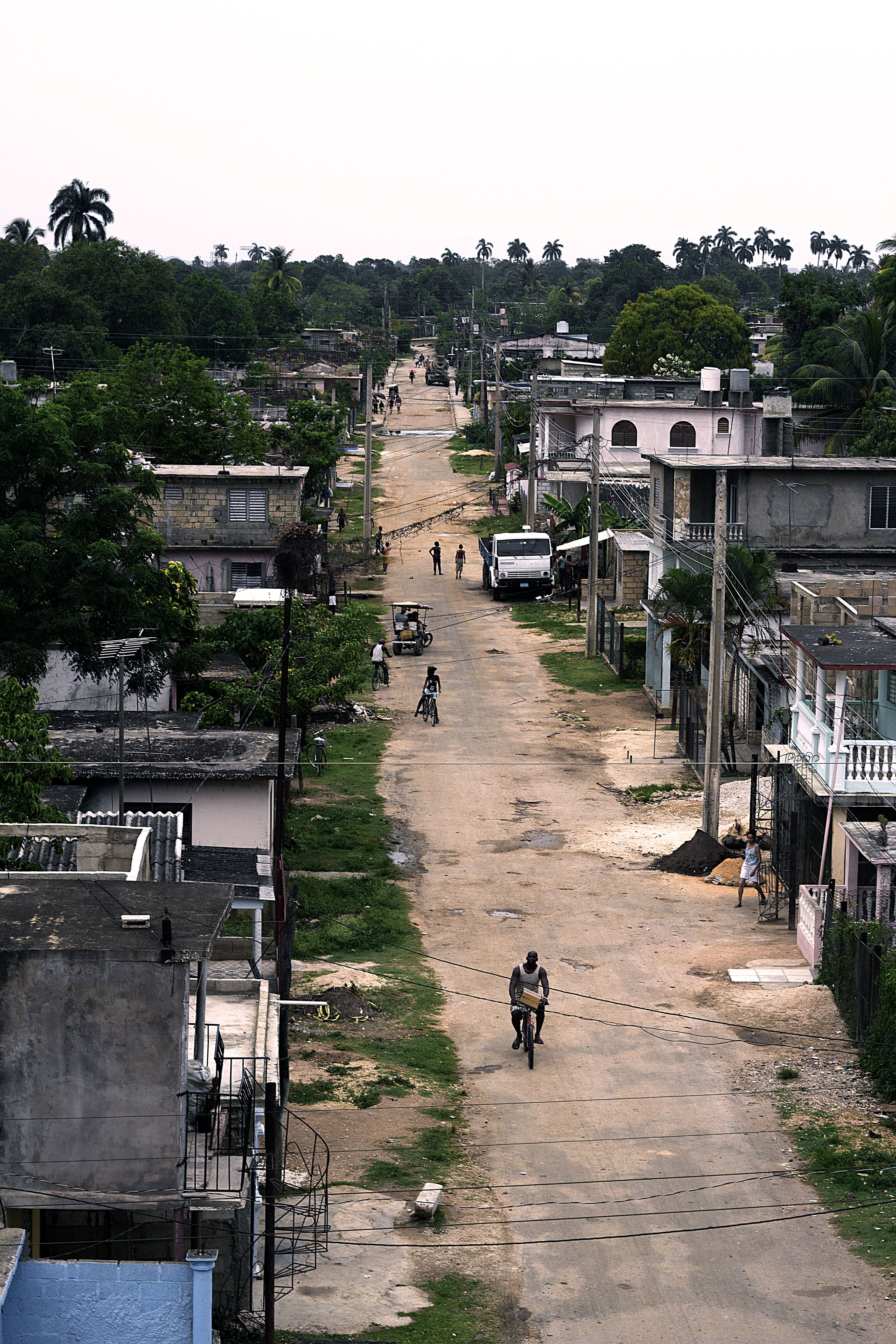 A city street in Morón, Cuba.